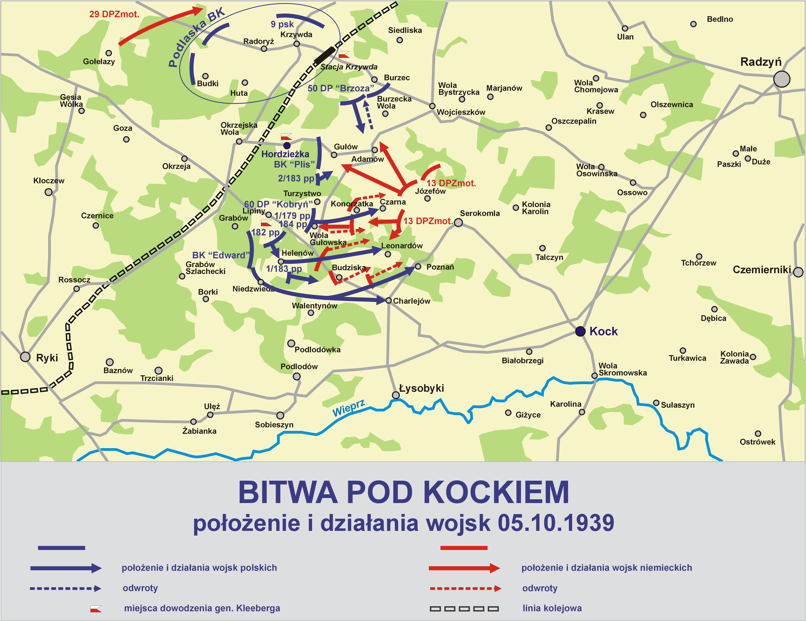 Battle of Kock (05-10-1939)